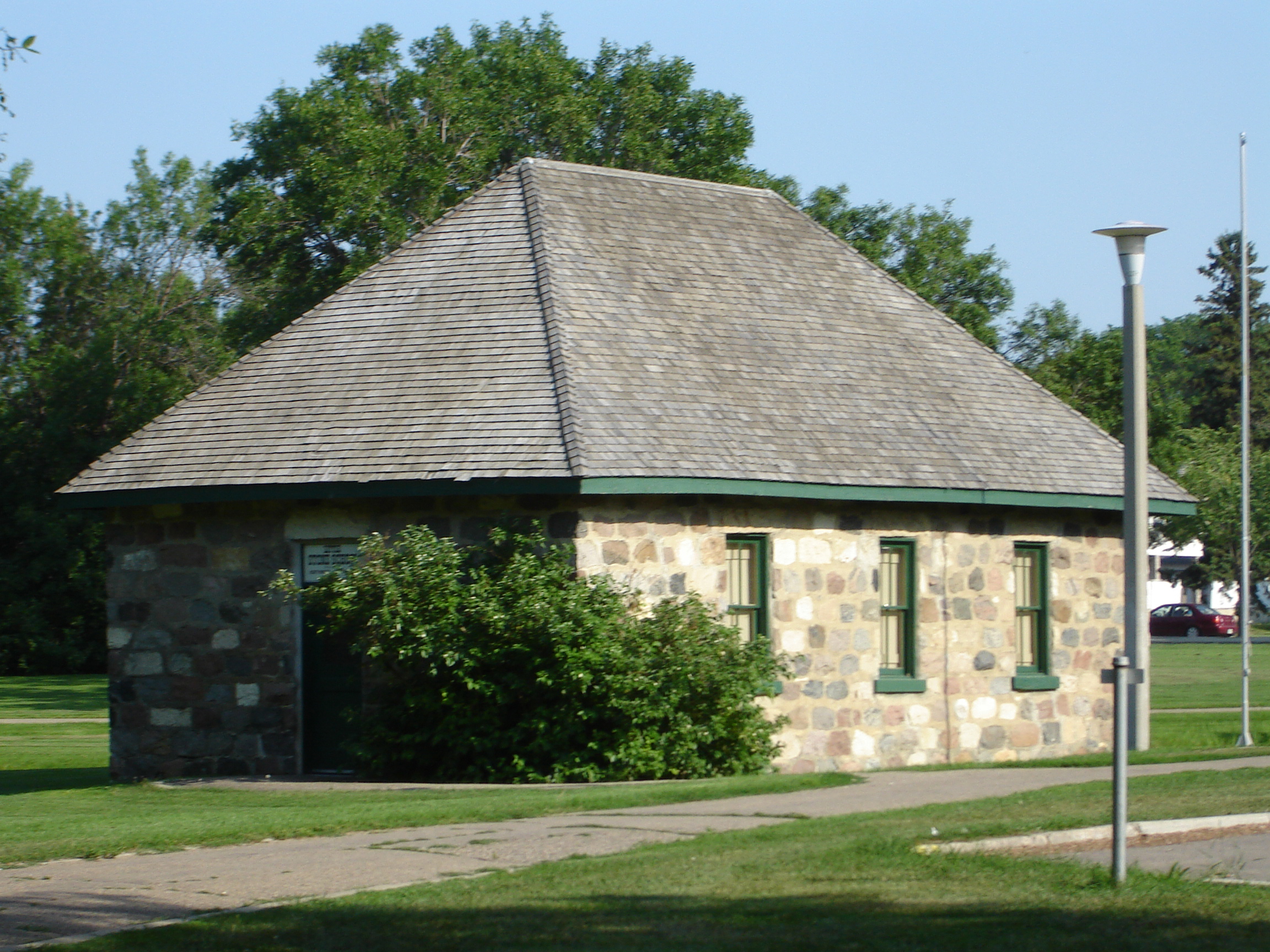 Victoria School One room schoolhouse U of S Saskatoon Saskatchewan Canada